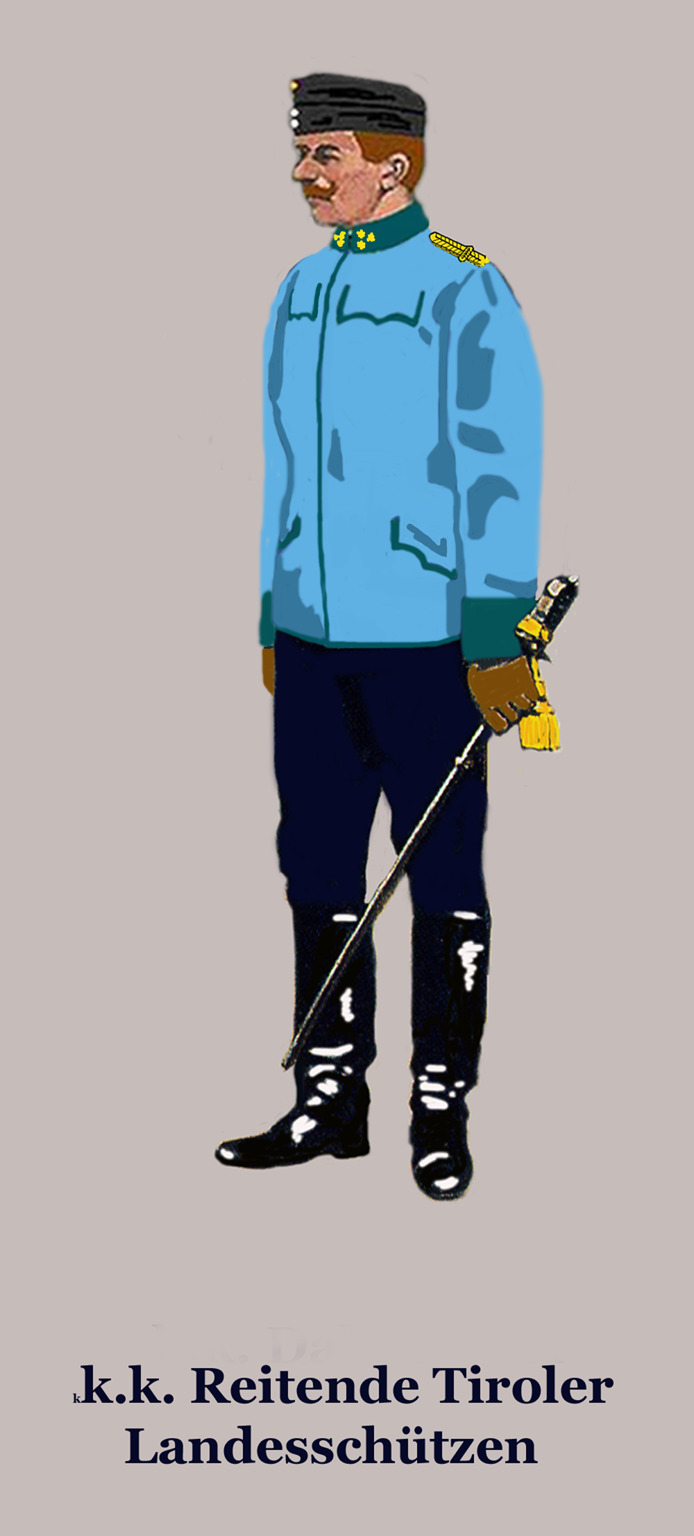 1st Lieutenant of the Mounted Tyrolian Rifles in service dress